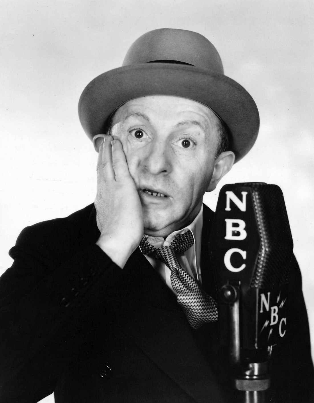 Photo of Sam Hearn who plated Schlepperman on The Jack Benny Radio Program.